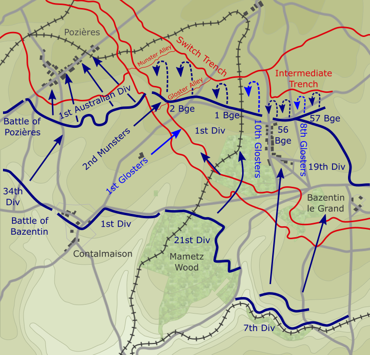 Actions of the 1st Battalion The Gloucestershire Regiment on 16 July during the Battle of Bazentin, and of the 8th and 10th Battalions The Gloucestershire Regiment on 23 July During the Battle of Pozières.